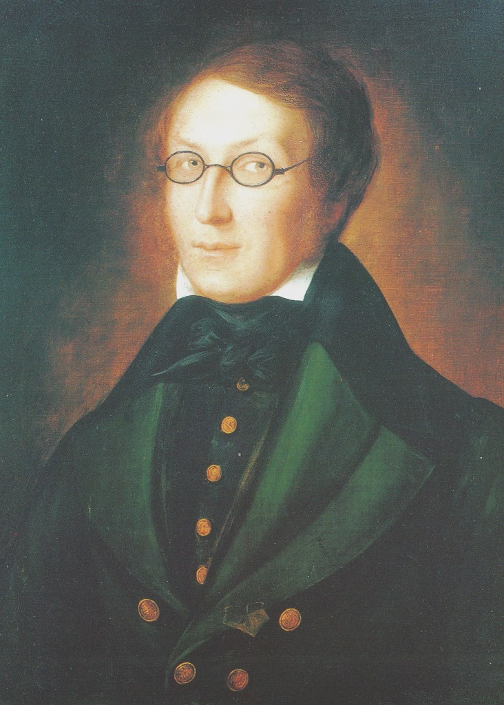 Portrait of norwegian author Henrik Wergeland (1808-1845)